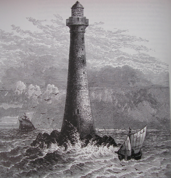 19th century engraving of Skerryvore lighthouse, Scotland